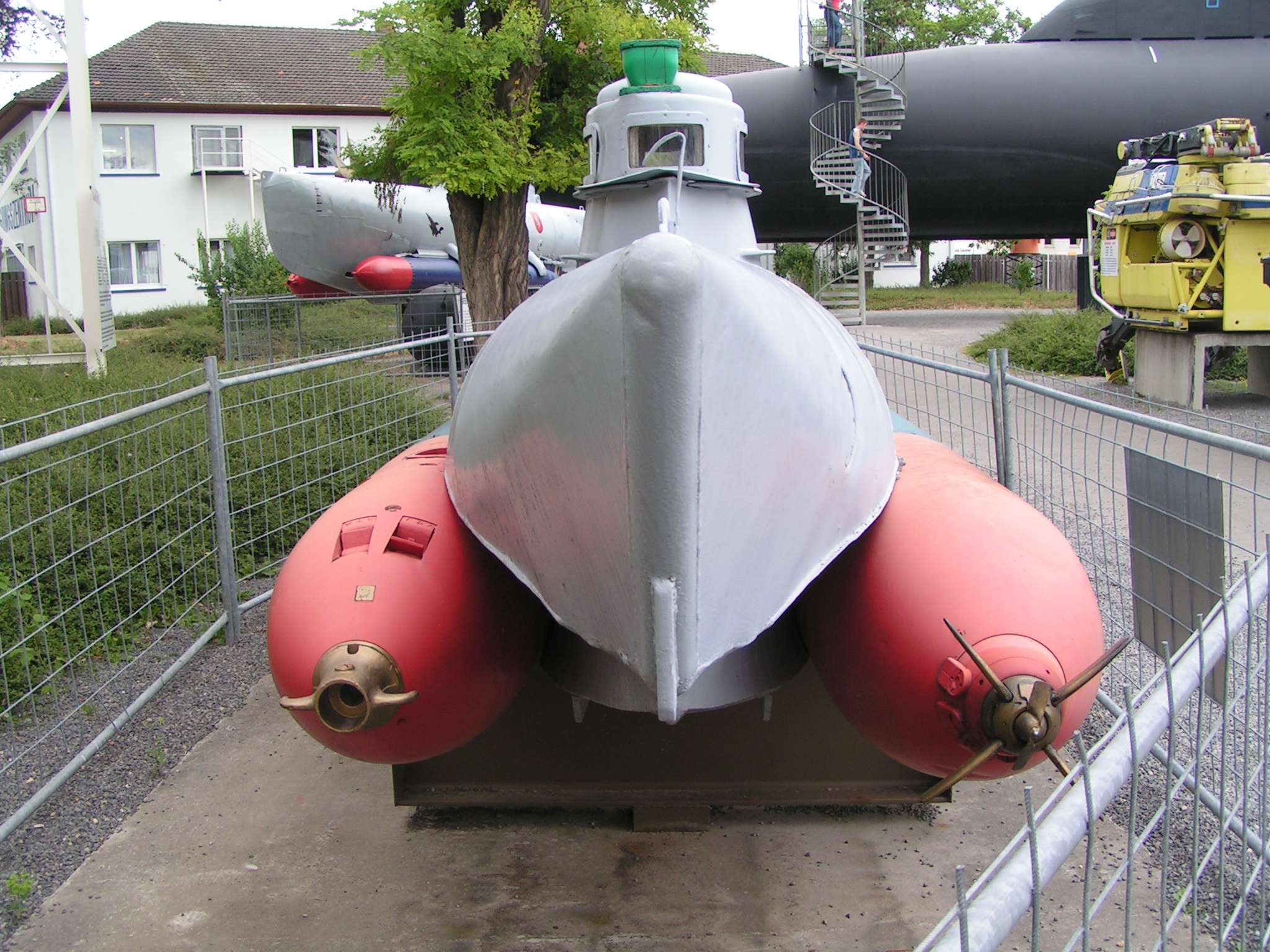 Submarine Biber, Museum Speyer, Germany